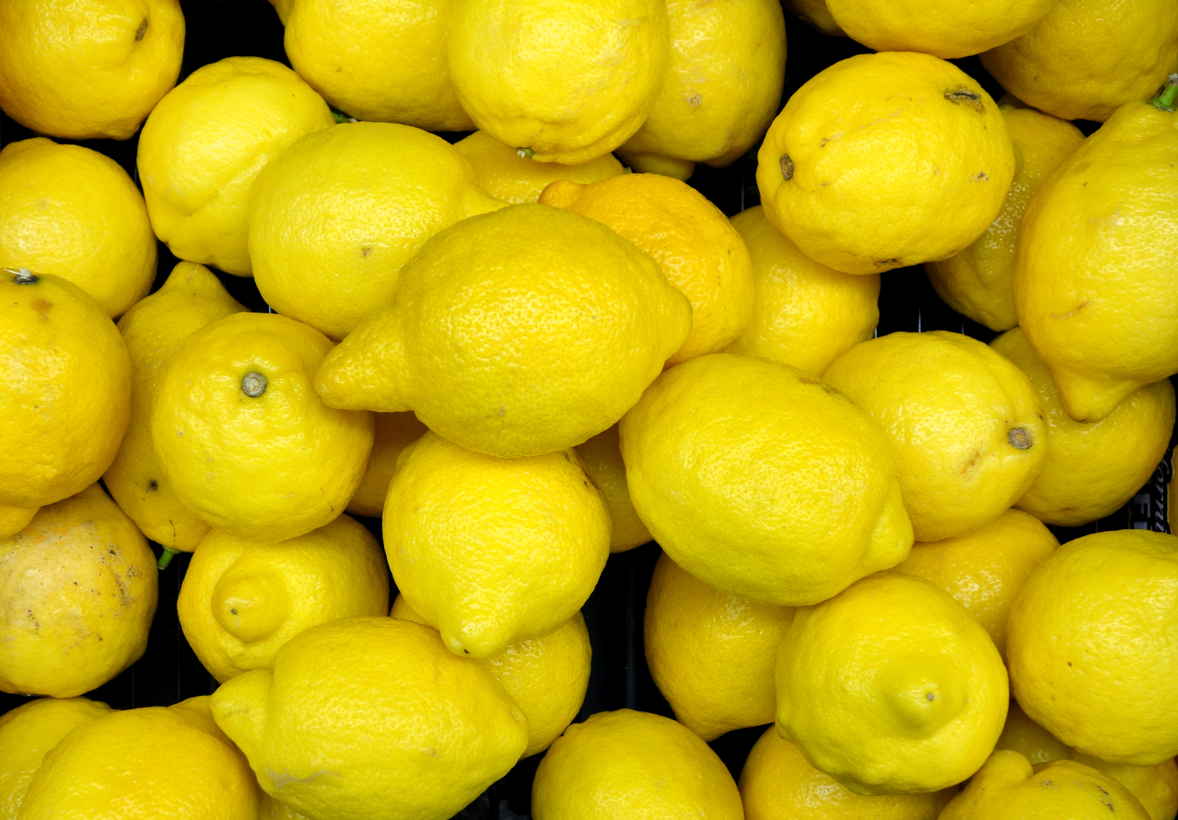 Lemons.